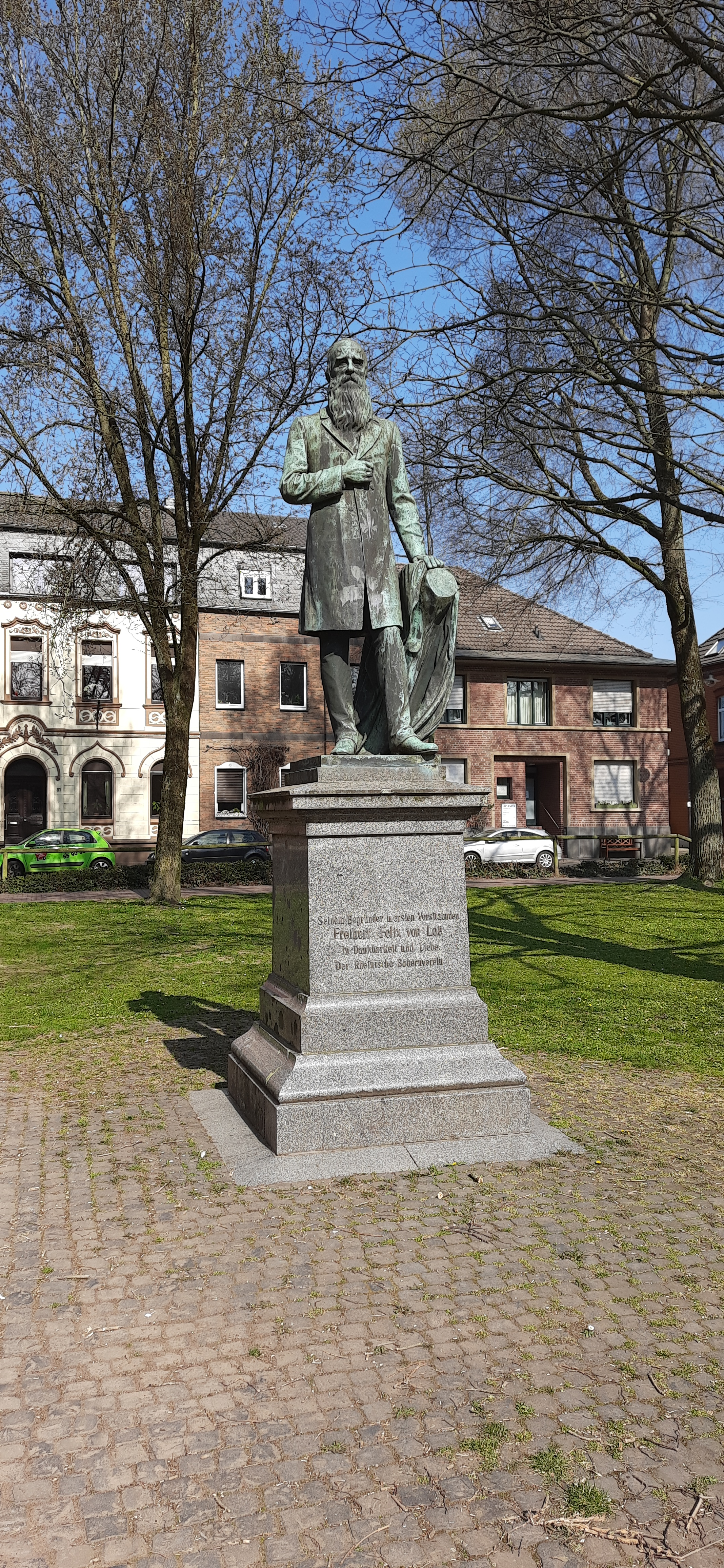 Cultural heritage monument No. 252 in Kempen